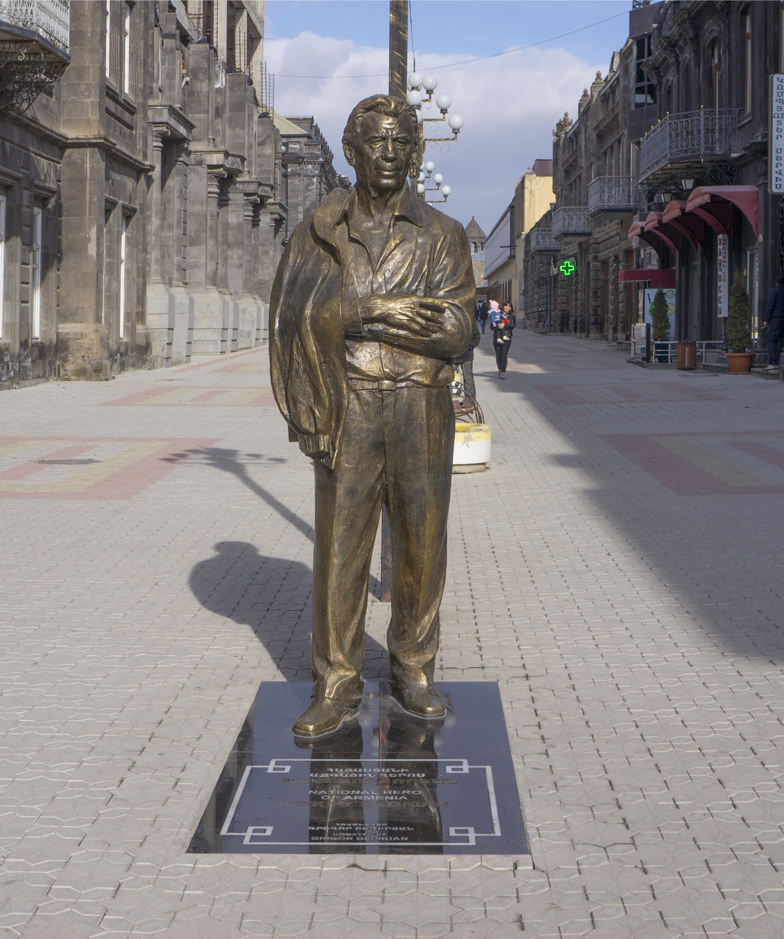 Statue of Kirk Kerkorian ( American businessman, investor, and philanthropist) in Gyumri, Armenia. Of Armenian American origin, Kerkorian provided over $1 billion for charity in Armenia through his Lincy Foundation, which was established in 1989 and particularly focused on helping to rebuild northern Armenia after the 1988 earthquake.